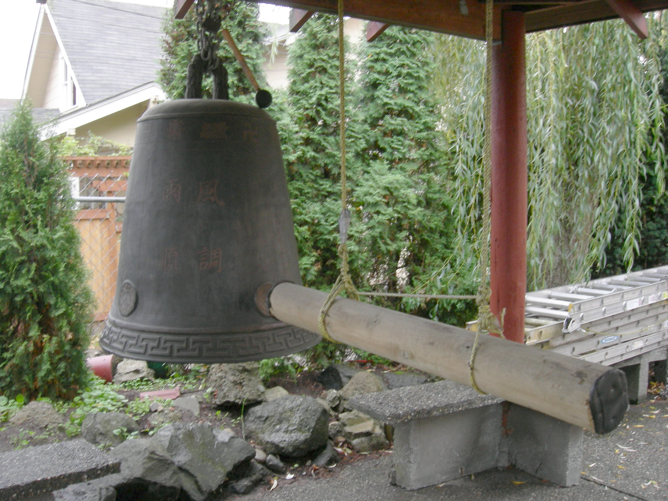 Temple bell, Viet Nam Buddhist Temple, corner of 18th Avenue and King Street, Central District, Seattle, Washington.